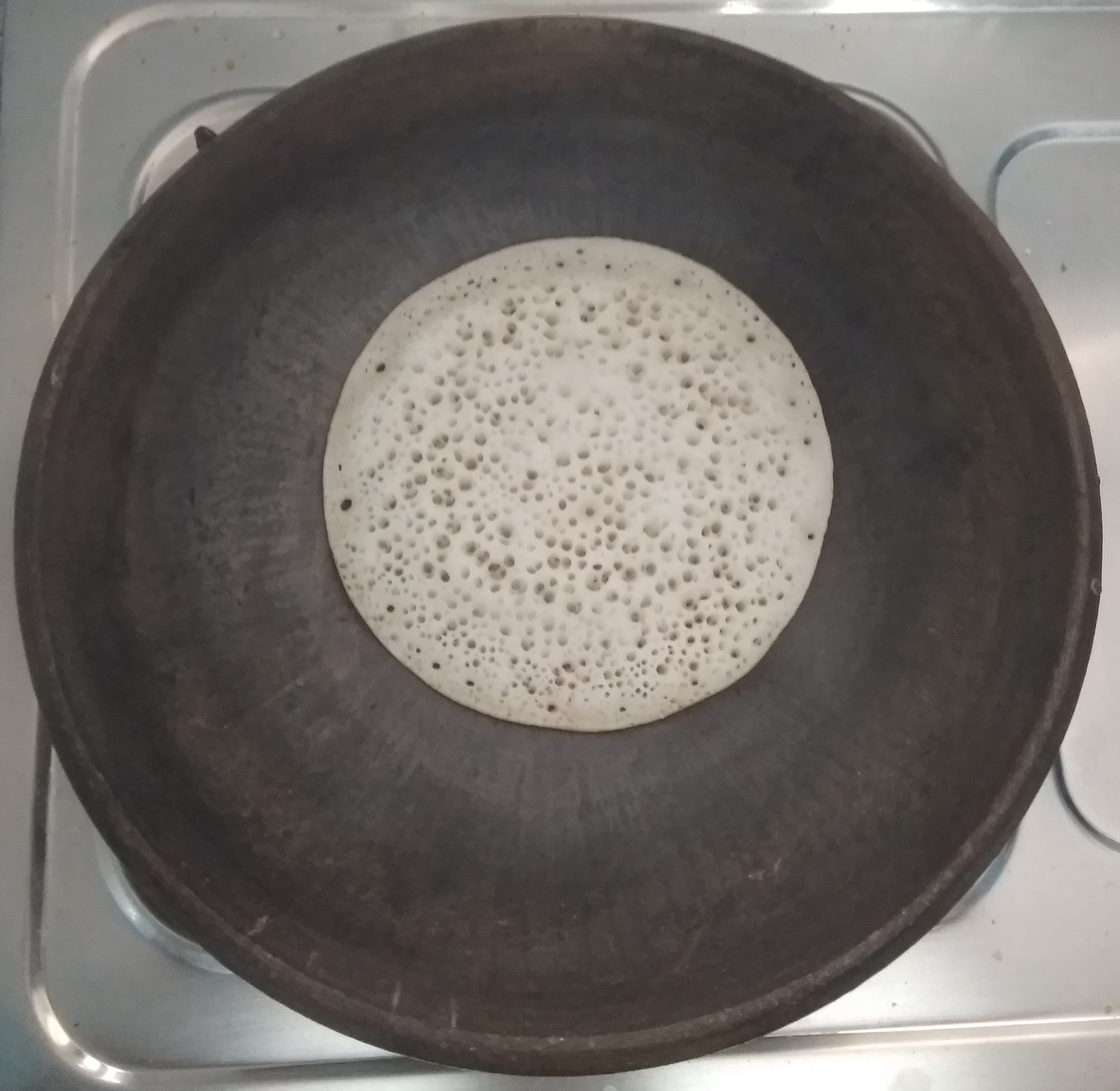 Vodu-Pole on Mannudo-Vodu a Beary Cuisine.